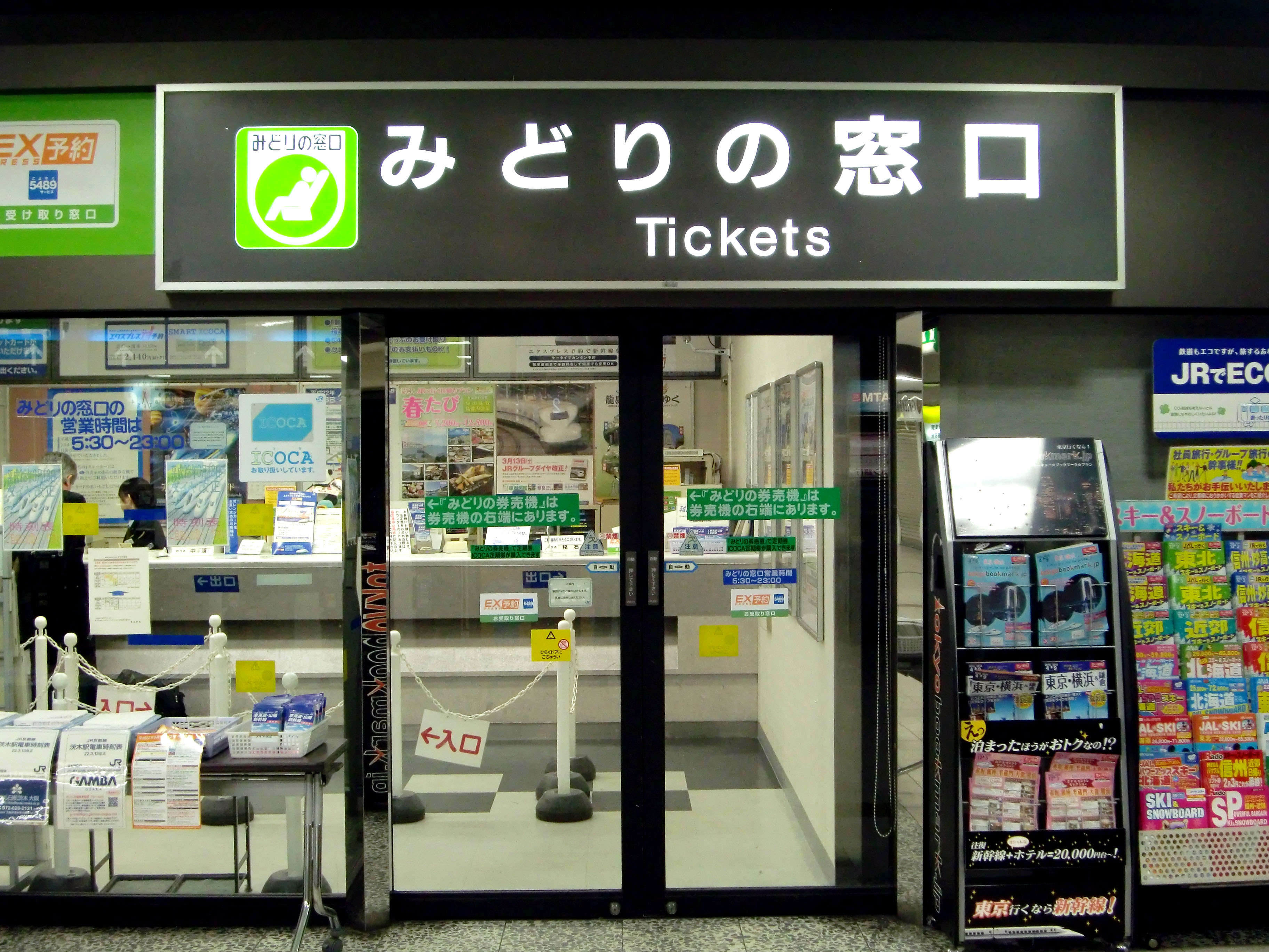 Midori no Madoguchi(JR Ibaraki Station),1-1-10 Ekimae Ibaraki-City Osaka Japan.